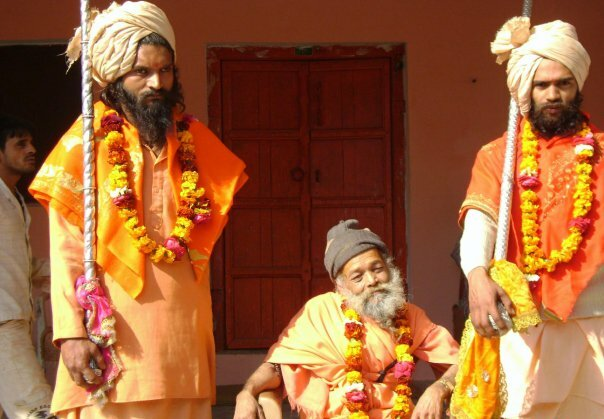 This photograph shows the saints from Atal akahara during their Flag hosting in KumbhMela2010.